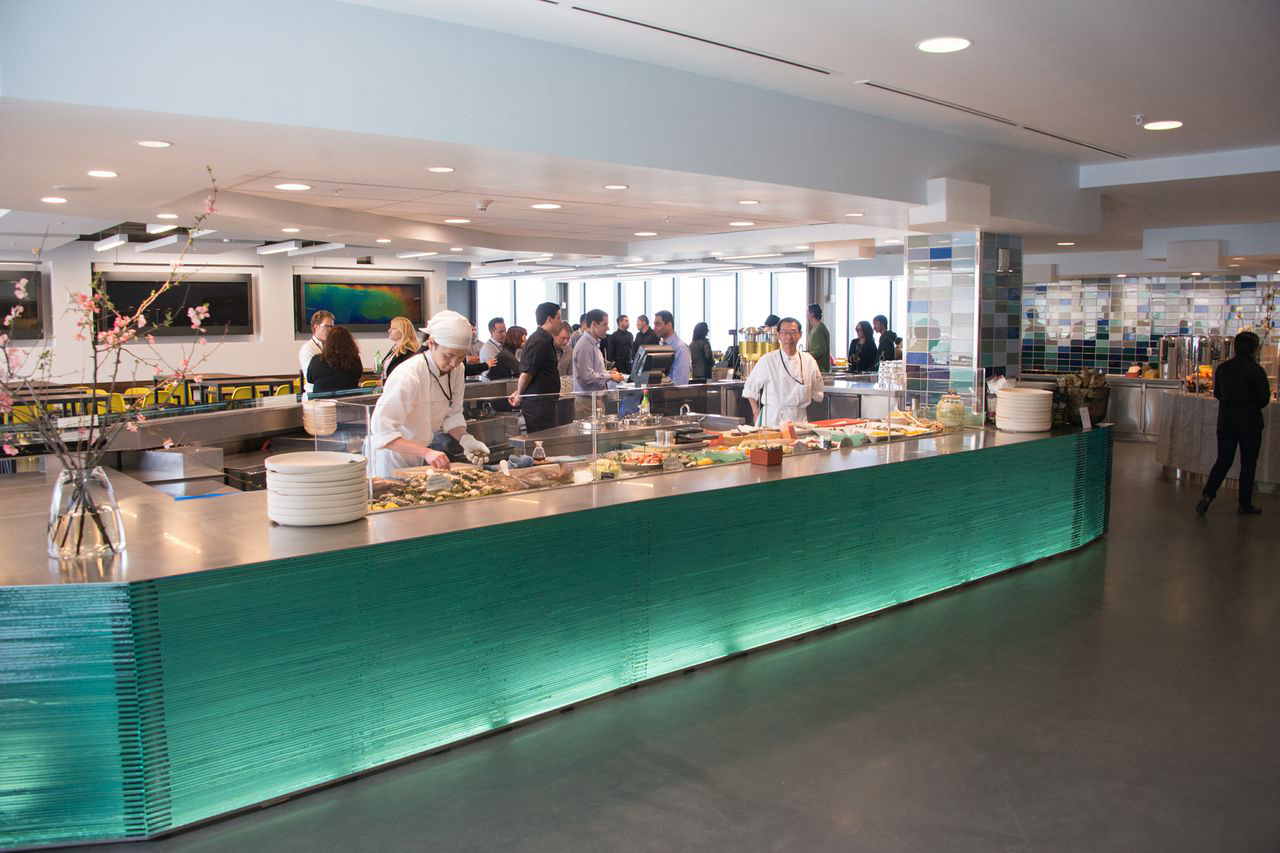 The sushi bar at the Exploratorium's Seaglass Restaurant.